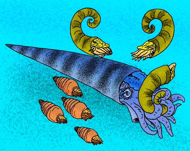 Various Ordovician cephalopods, including the infamous Cameroceras trentonese, shown feeding on a hapless Aphetoceras americanum, while a quartet of Cyclostomiceras cassinense swim by. (C) Stanton F. Fink